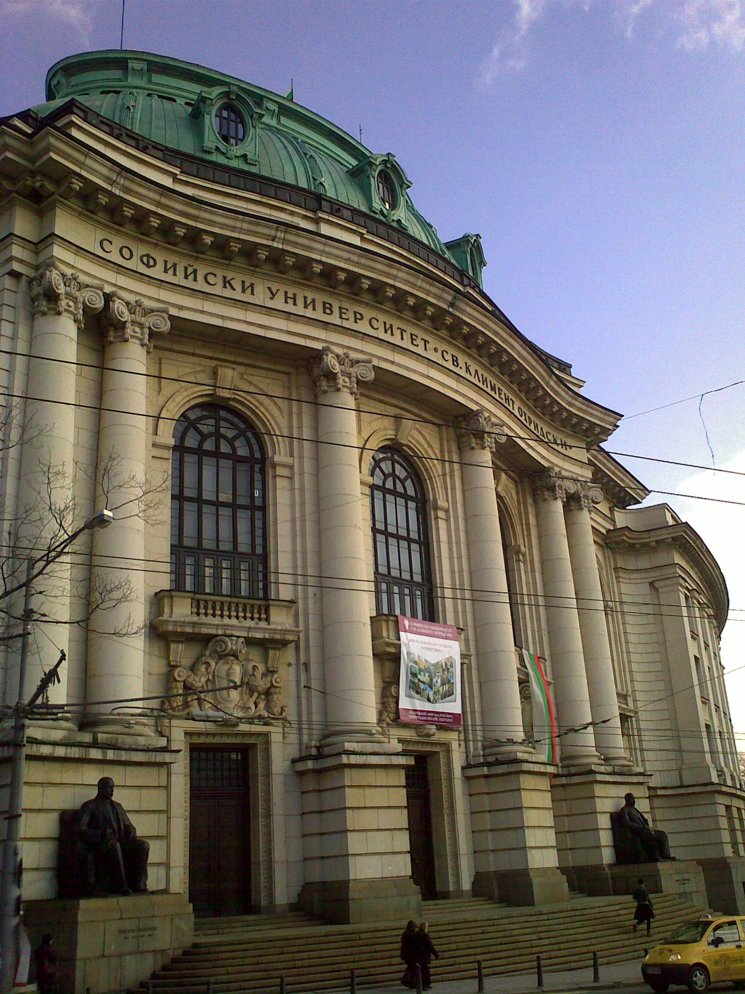 Sofia: University of Sofia